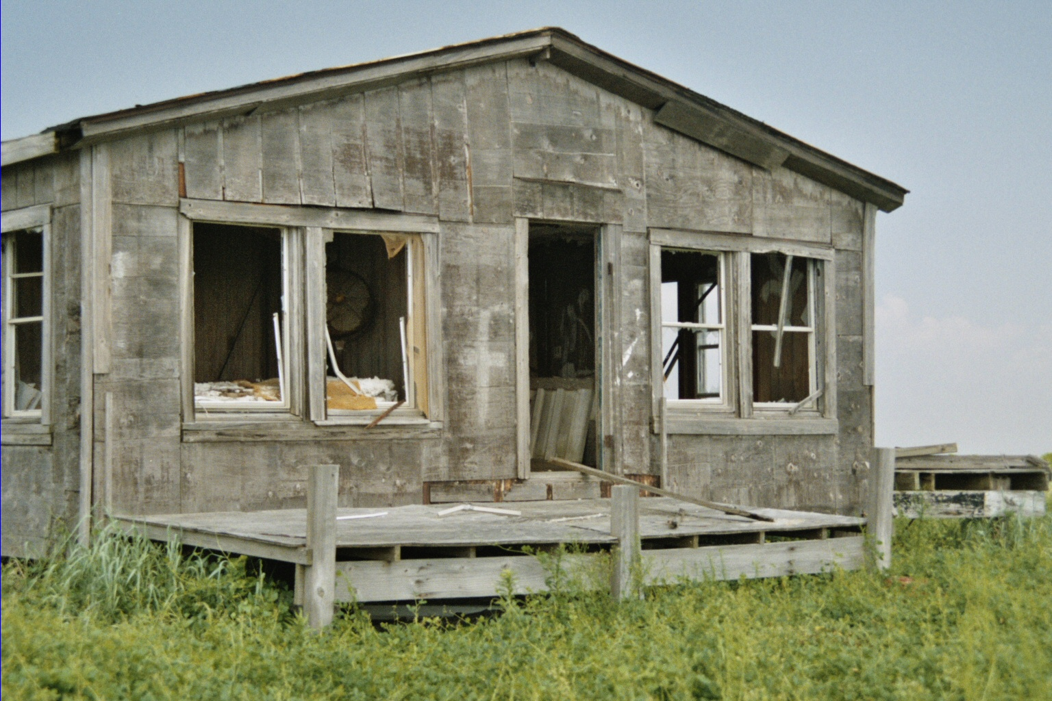 Cheniere Caminada, Louisiana. Ruins of house.